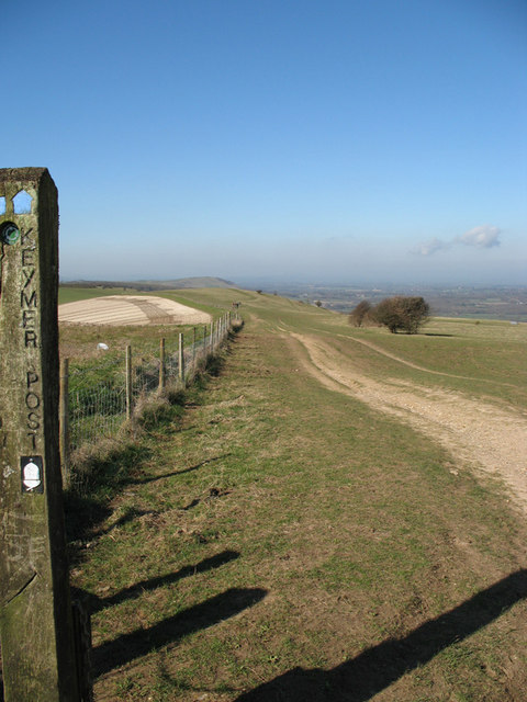 South Downs from way post. This was taken from the way post shown with my back towards Ditchling beacon and facing back towards Clayton Hill with Heathy Brow to the South.